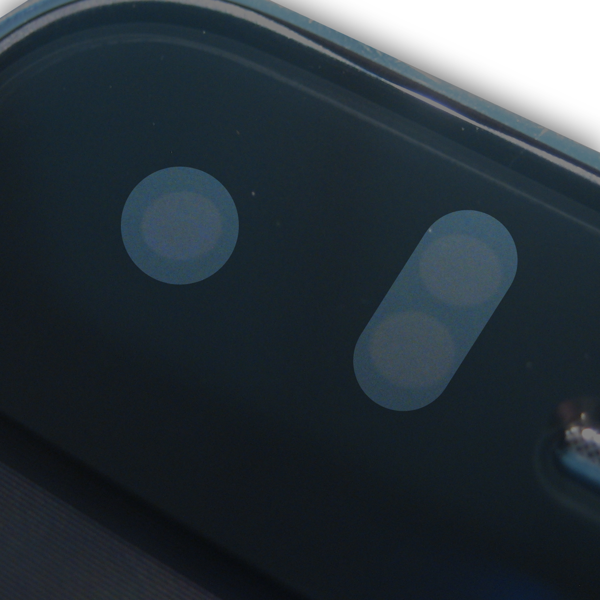 An image highlighting the sensors on the iPhone 3G